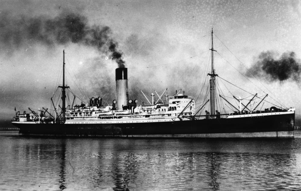 Ulysses (ship) Steamship built in 1913, 14,626 tons. (Description supplied with photograph.).